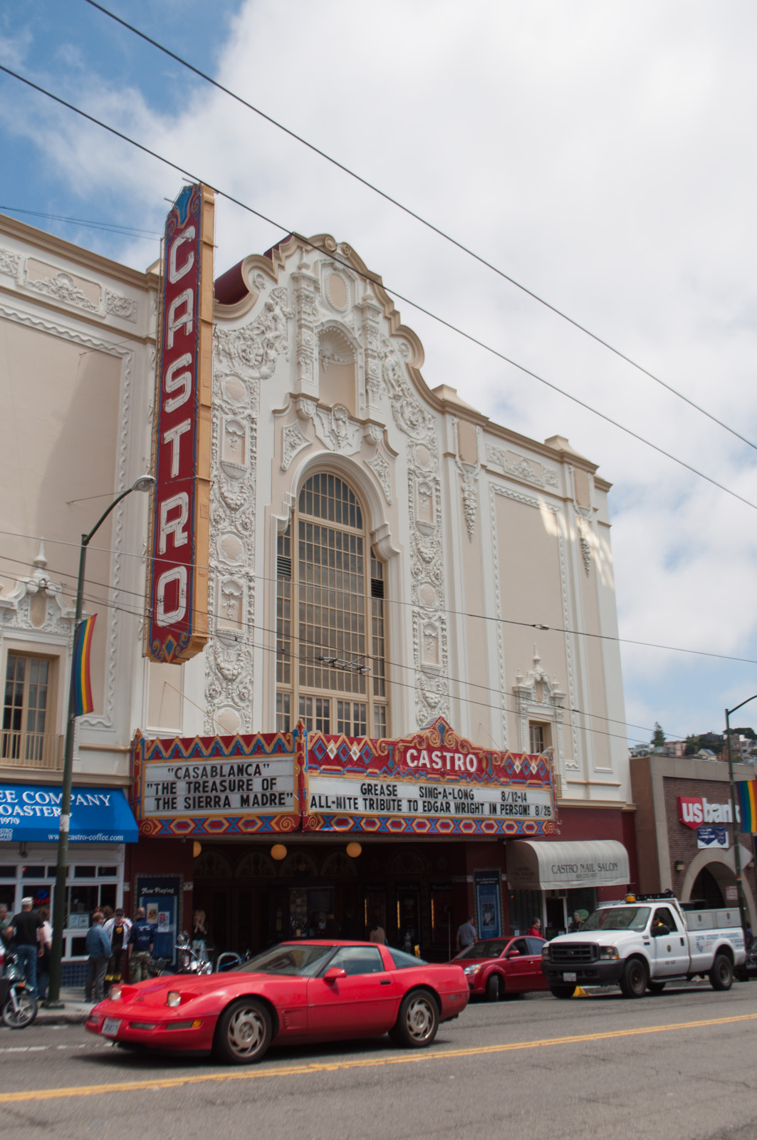 Castro Theater is the cultural focus of a neighborhood that used to be known as Eureka Valley, but is now popularly referred to as The Castro, named after the main street in the area (which I am on). The Castro, smack in the dead middle of San Francisco, is the heart of gay San Francisco. It is said to be the gayest neighborhood in America, and the rainbow flags on the light poles show the gay pride. Like most other famed gay neighborhoods, this area is overwhelmingly male; lesbians are more likely to be found over the hill in Noe Valley living next to heterosexual families.